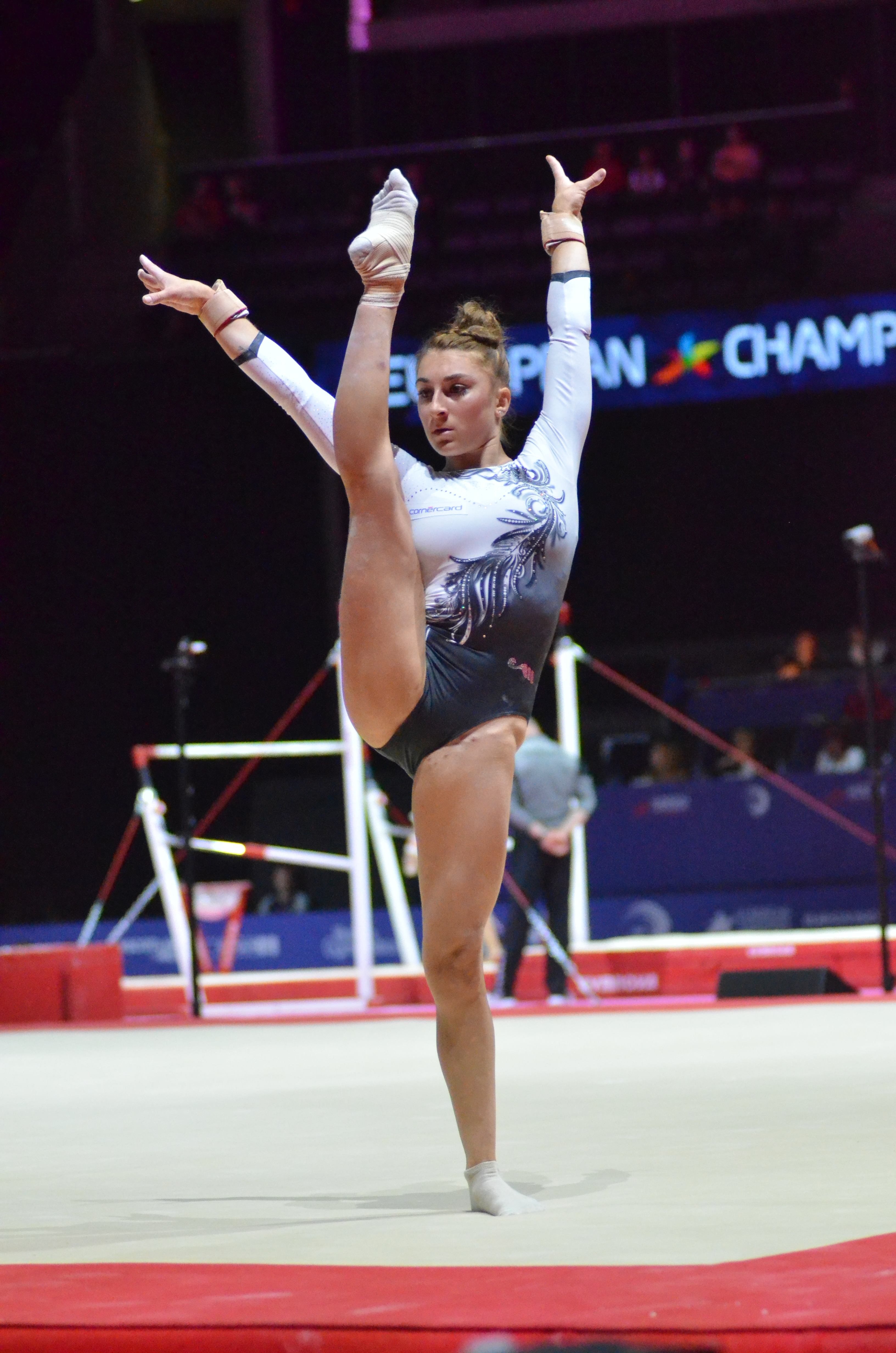 Ilaria Käslin (SUI) Floor - Subdivision 4 - Rotation 1 - Artistic Gymnastics, European Games Glasgow 2018, SSE Hydro, Glasgow Scotland, August 2nd, 2018 - Photo by Alex Filipov Instagram: @a.s.photoz